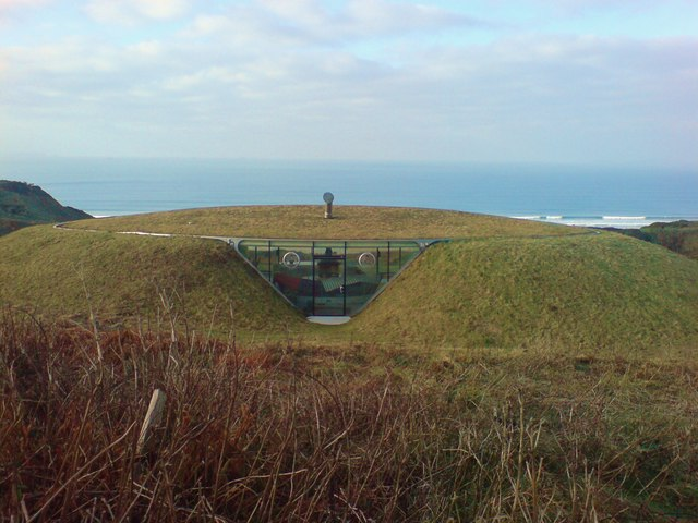 Malator - an amazing eco house Owned by a well known Labour MP, Malator is built on the site of a decrepit tin shack and is an amazing improvement! With stupendous views of the sunsets over St Bride's Bay one can only admire the ingenuity of this 'building'. It totally blends into the landscape and is a sight to see.